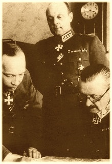 Hauptquartiermeister Aksel Airo presenting a plan to Marshal of Finland C. G. E Mannerheim during Continuation War. Behind, Chief of General Staff Erik Heinrichs.